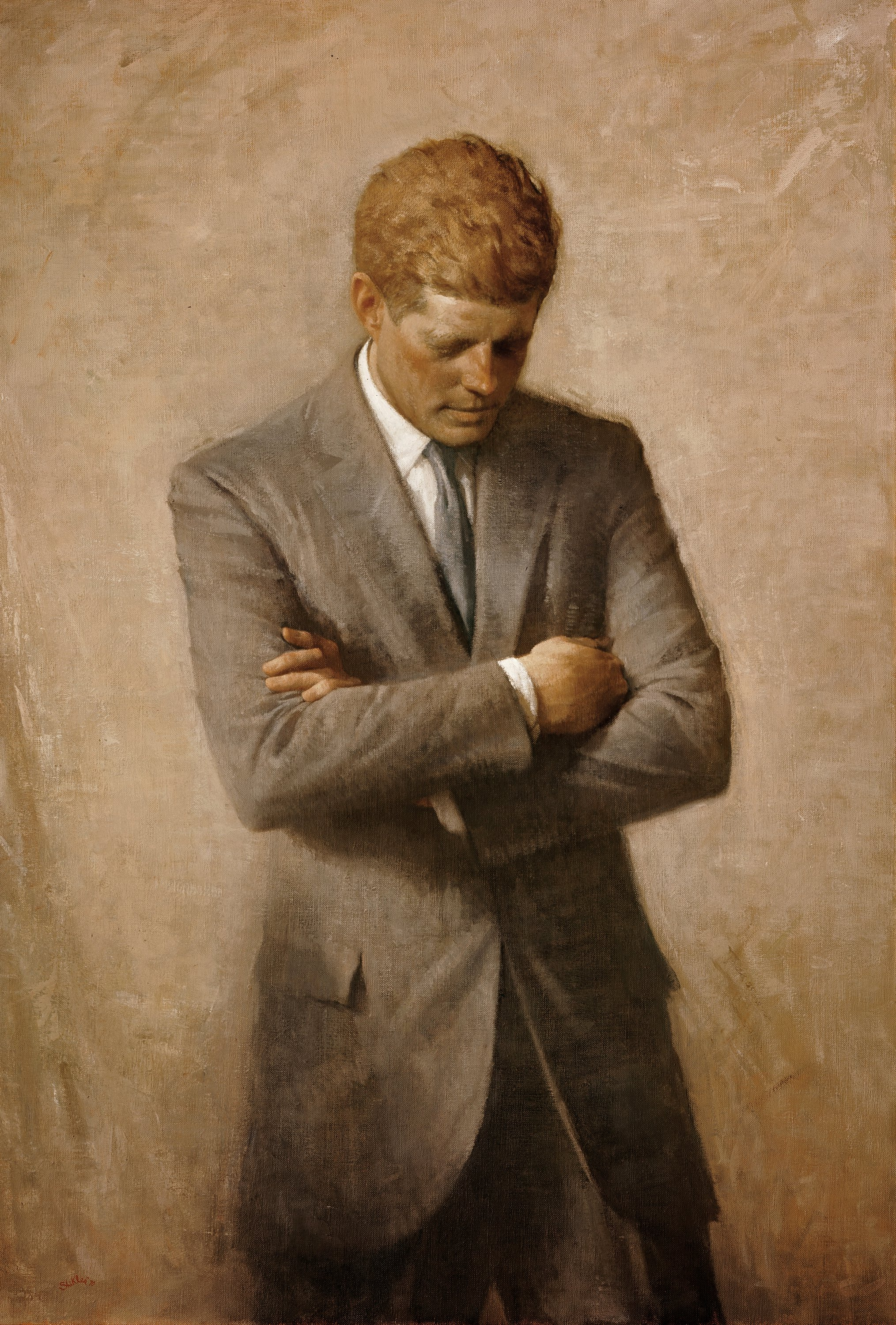 Posthumous official presidential portrait of U.S. President John F. Kennedy.